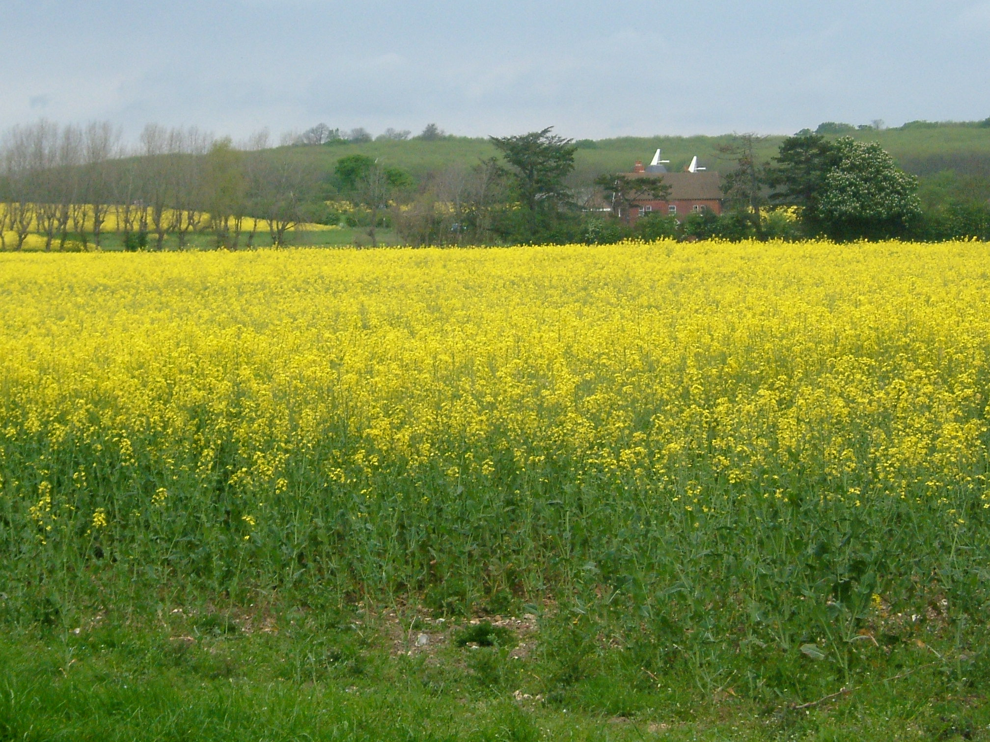 Ranscombe Farm buildings from RS203 North Downs Way, in April. The field is growing Oil Seed Rape.